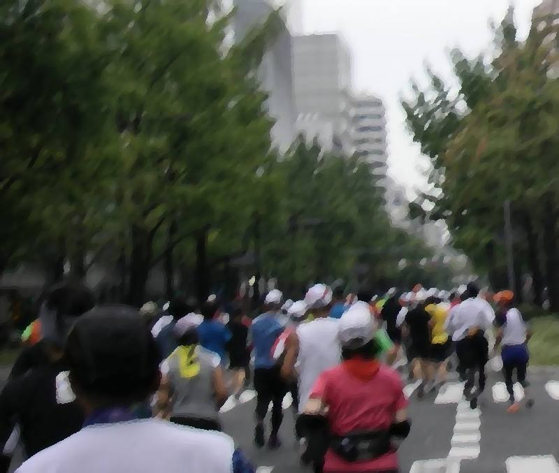 Osaka marathon 2011 midosuji